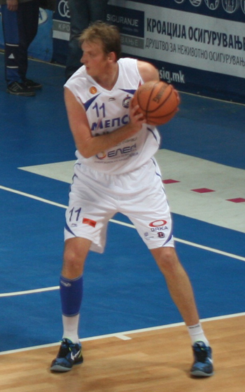 Todor Gecevski in MZT Skopje jersey